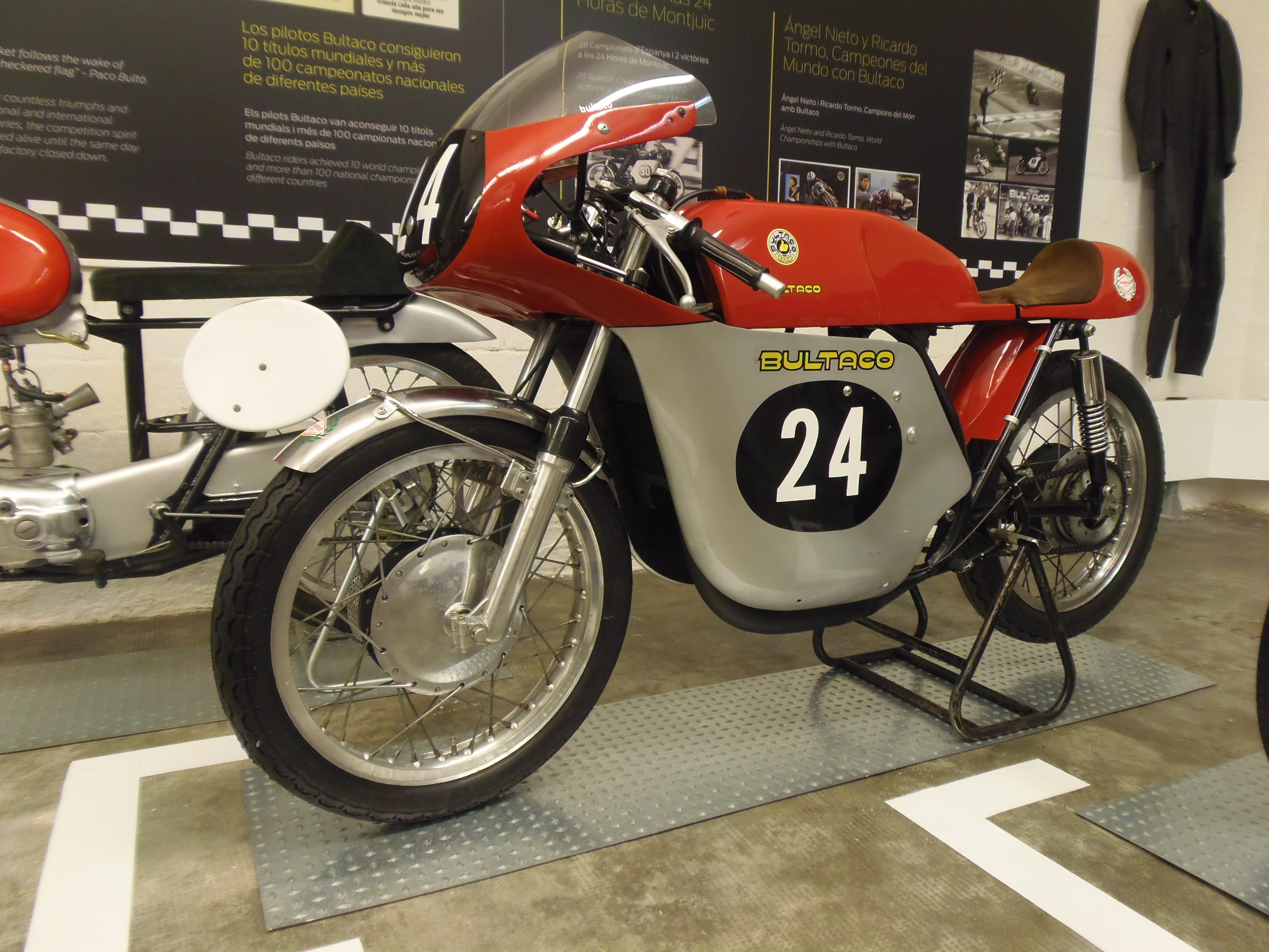 Bultaco TSS, 125 cc, 1968. With a unit like this one, Salvador Cañellas became the first Catalan rider to win a World Championship Grand Prix in 1968.